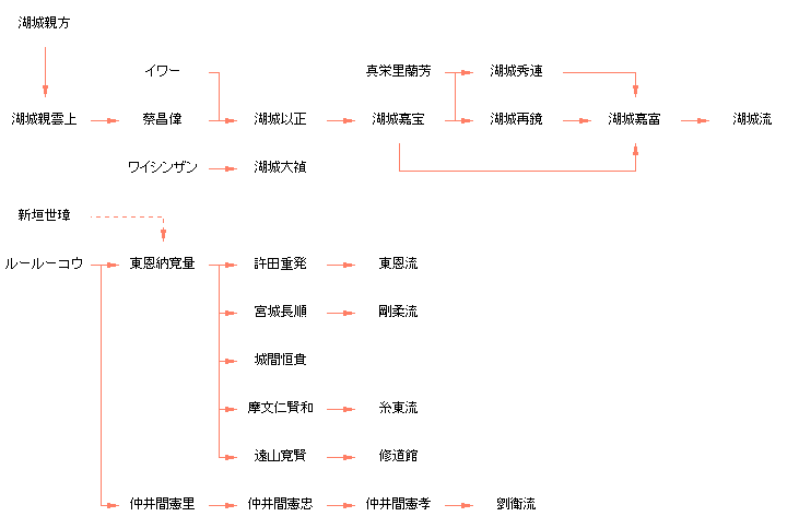 Lineage of Naha-te